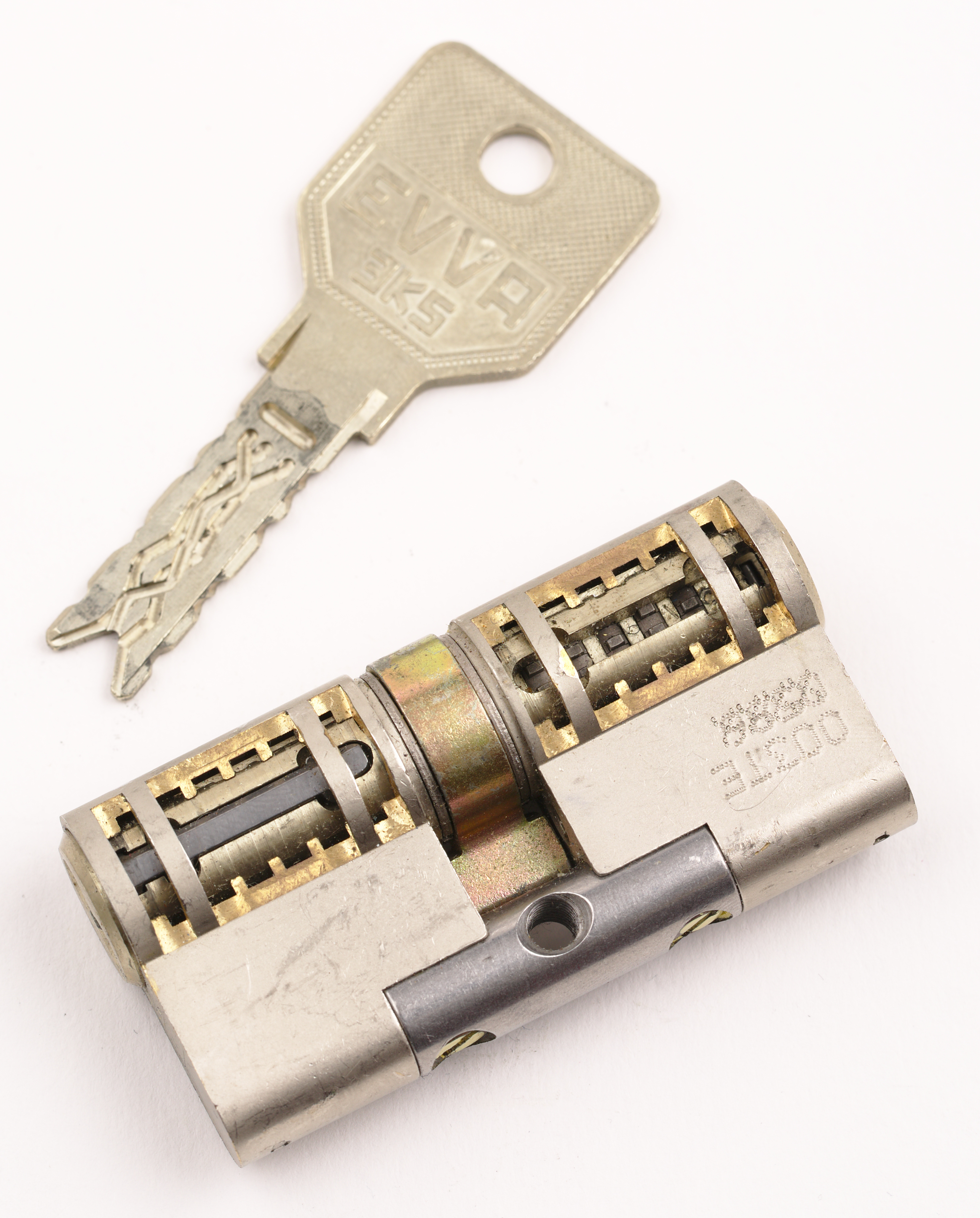 I got to spend some quality time with Jos Weyers' collection of cut locks.